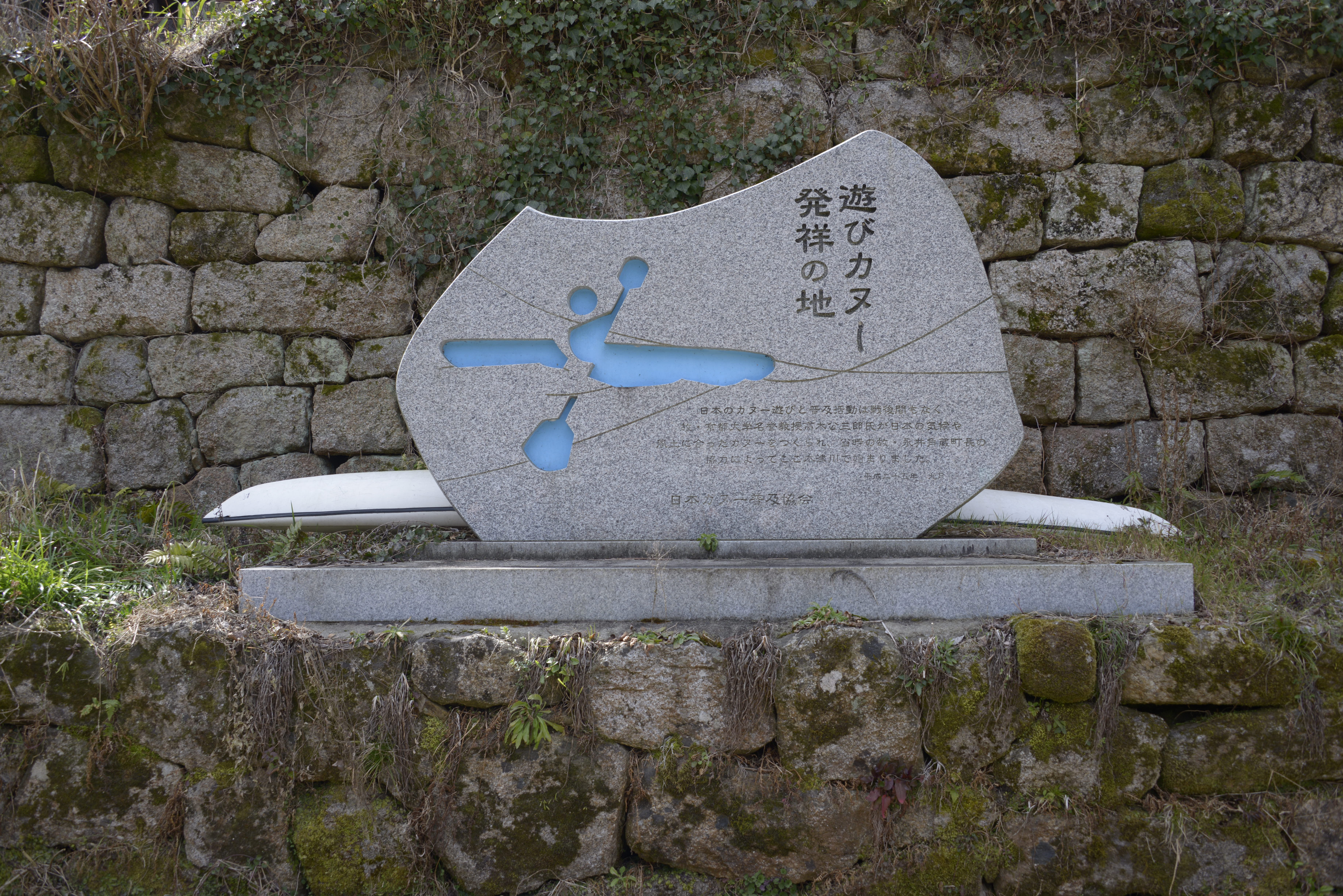 kasagi,kyoto boat